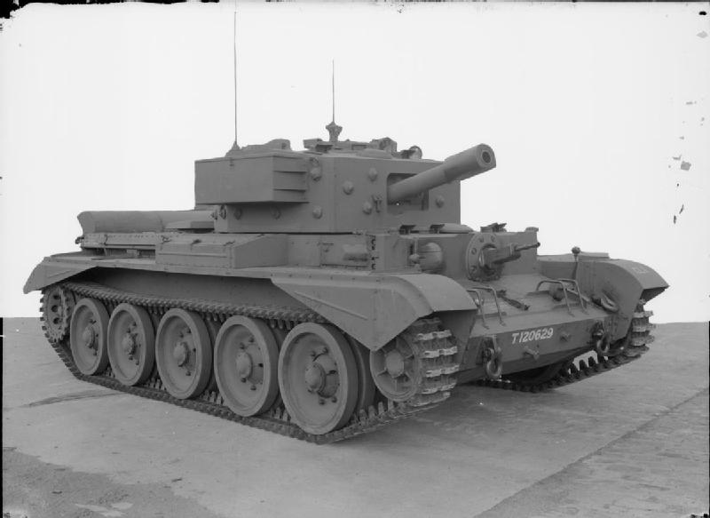 Tanks and Afvs of the British Army 1939-45 Cruiser Mk VIII Cromwell VI (A27M)